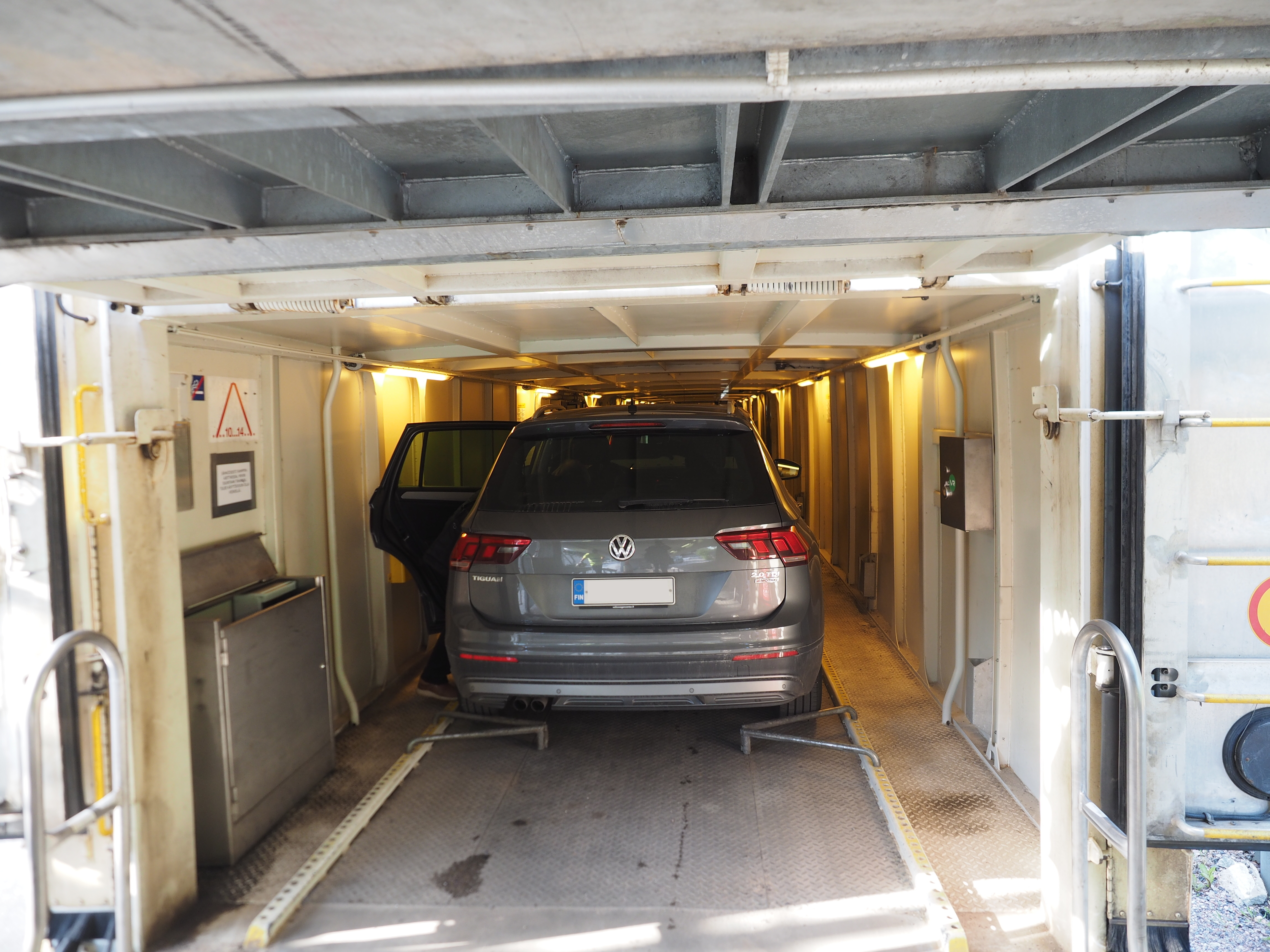 A Volkswagen Tiguan car loaded on a car transport carriage on a Finnish long-distance train from Helsinki to Kolari. The licence plate has been artificially deleted for privacy reasons.